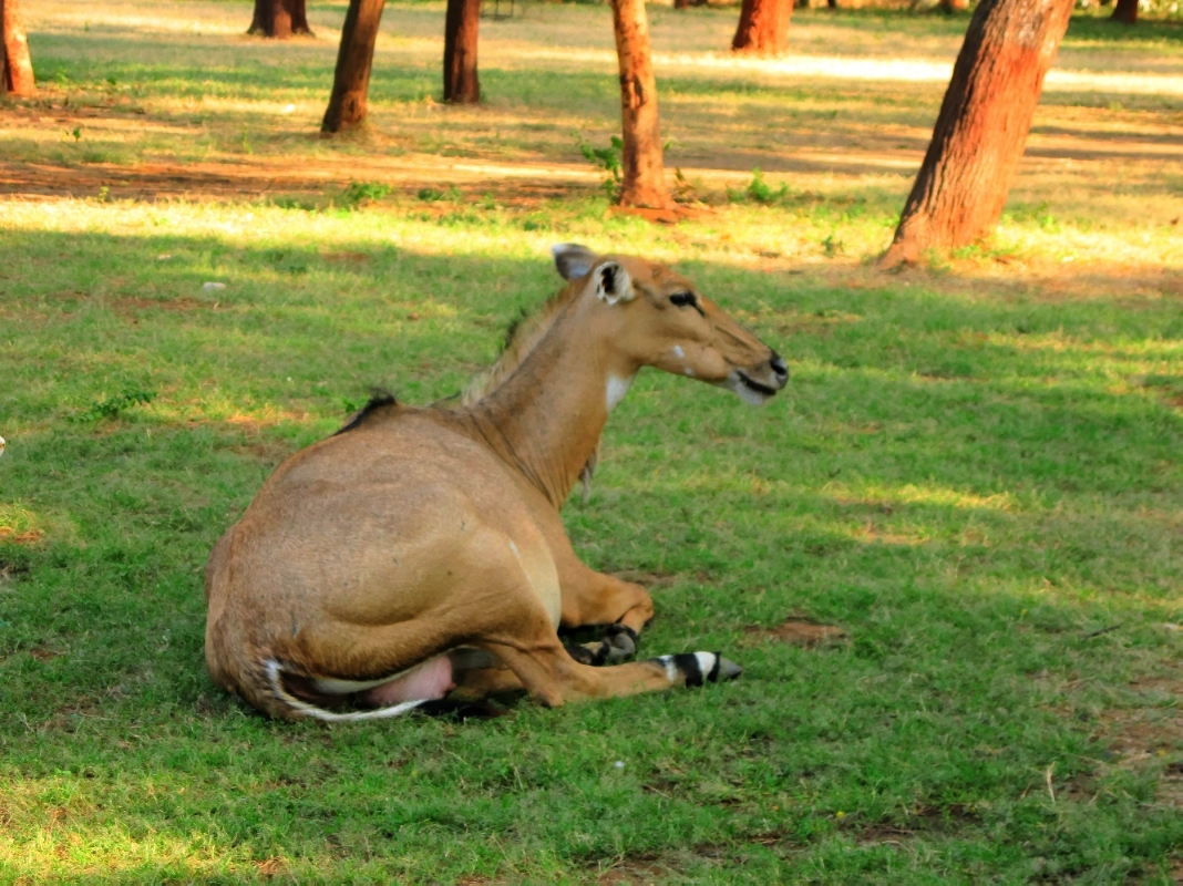 This picture of Nilgai or more commonly called as a "Blue Bull" meaning of "NilGai" in India, i clicked it ,while, relaxing and ruminating in Indroda, National Park, India.